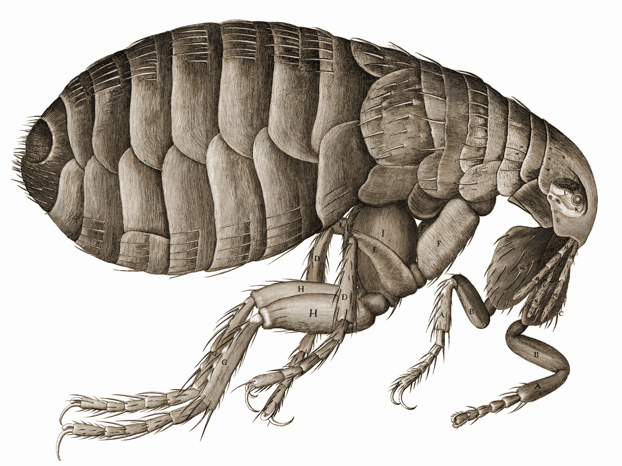 Schem. XXXIV - Of a Flea. An illustration of a flea.